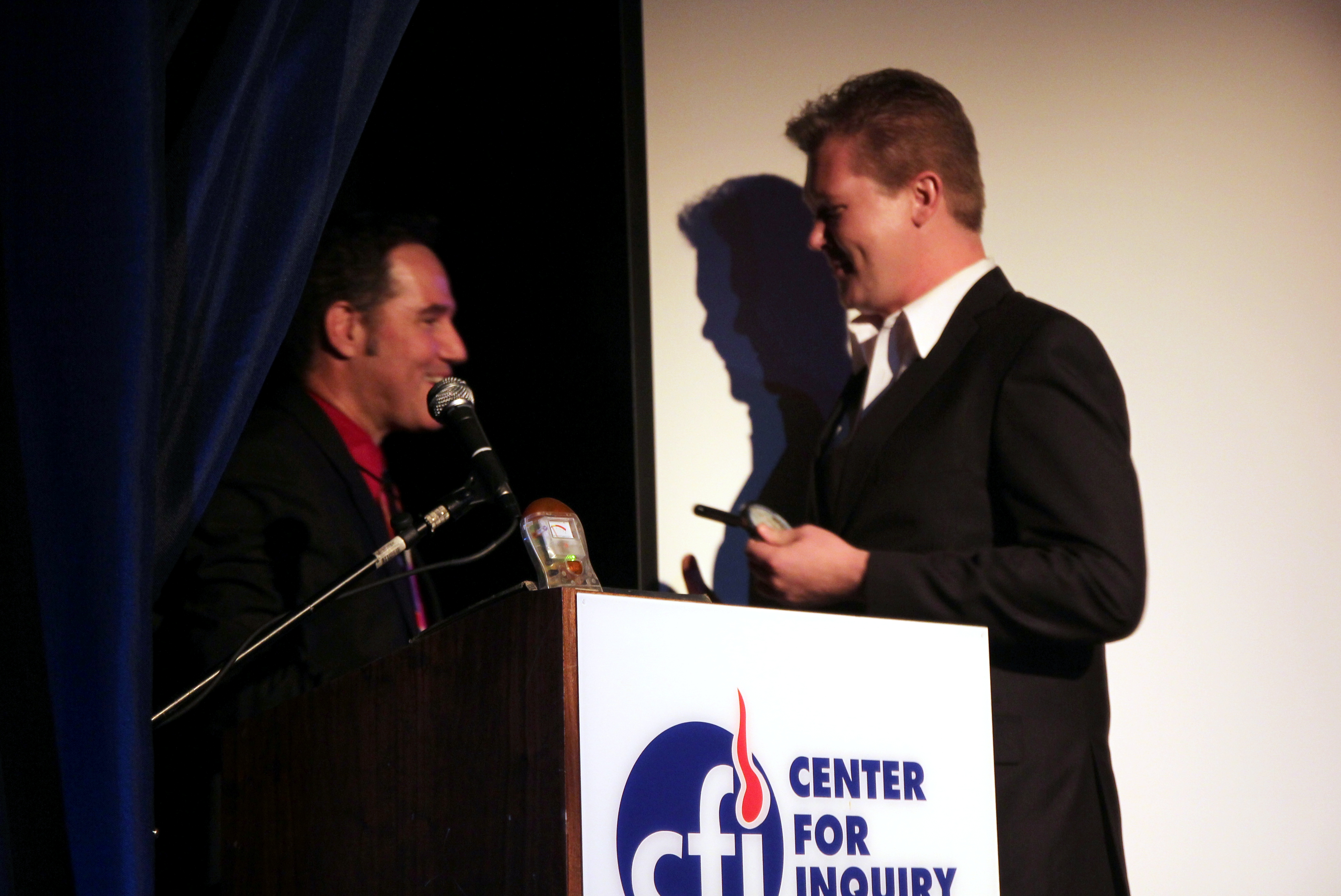 James Underdown director of CFI West gives an award for outstanding critical thinking on television for the show "The Mentalist" at the 10th anniversary party for IIG West.